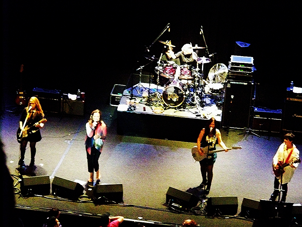 The Go-Gos----all women 80s pop band. Belinda Carlisle - lead vocals, Jane Wiedlin - guitar, Charlotte Caffey -guitar and keyboard, Kathy Valentine - bass, Gina Schock - drums. They performed at the Wilbur Theater, Boston, Mass. May 13, 2012.